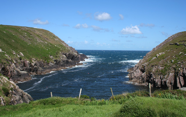 Brandon Creek View northwards along the inlet of Brandon Creek (Cuas an Bhodaigh) from the lane to the pier (just visible, right). The inlet is almost entirely in square; the foreground grass is in Q4211